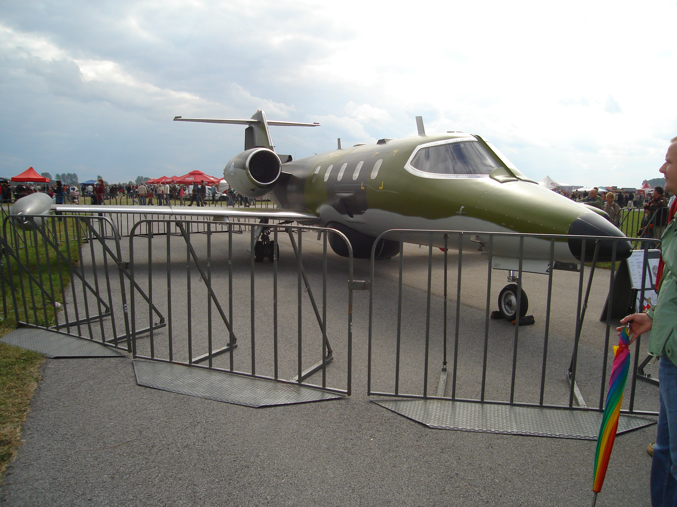 Learjet 35AS, Radom Air Show 2007